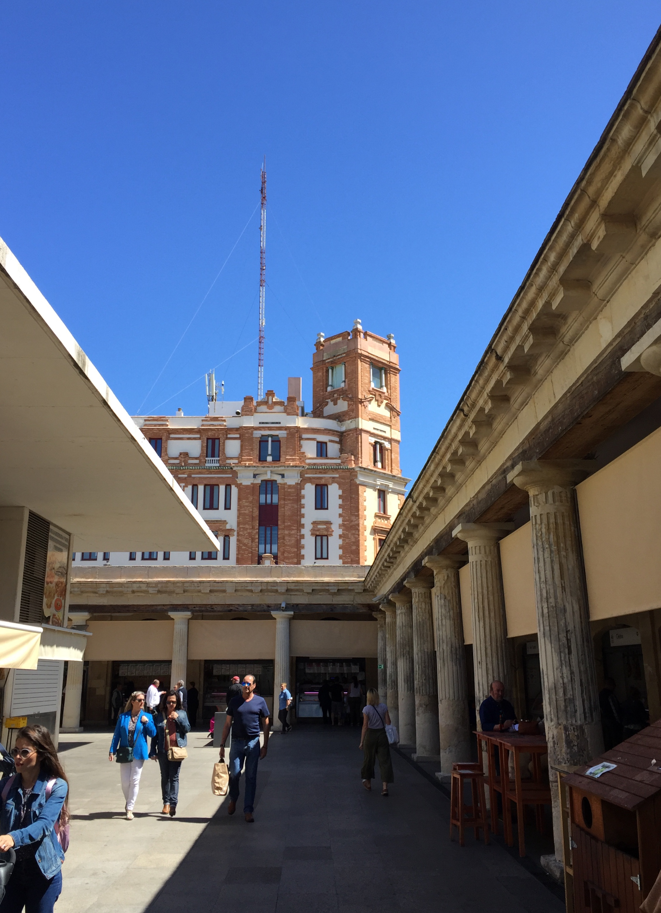 Cádiz, central Market and Post Office headquarters